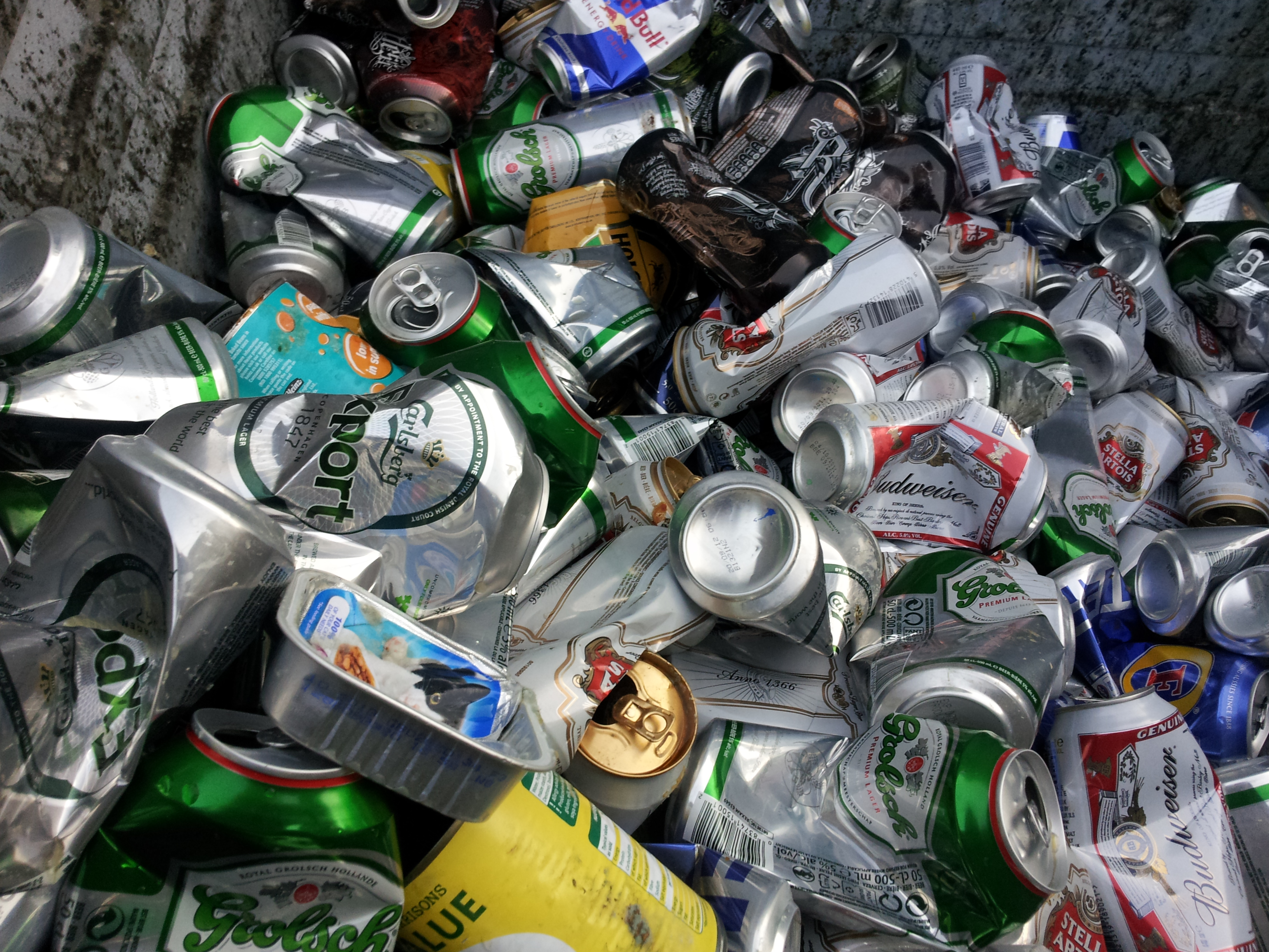 Food and drink cans inside a recycling bin.